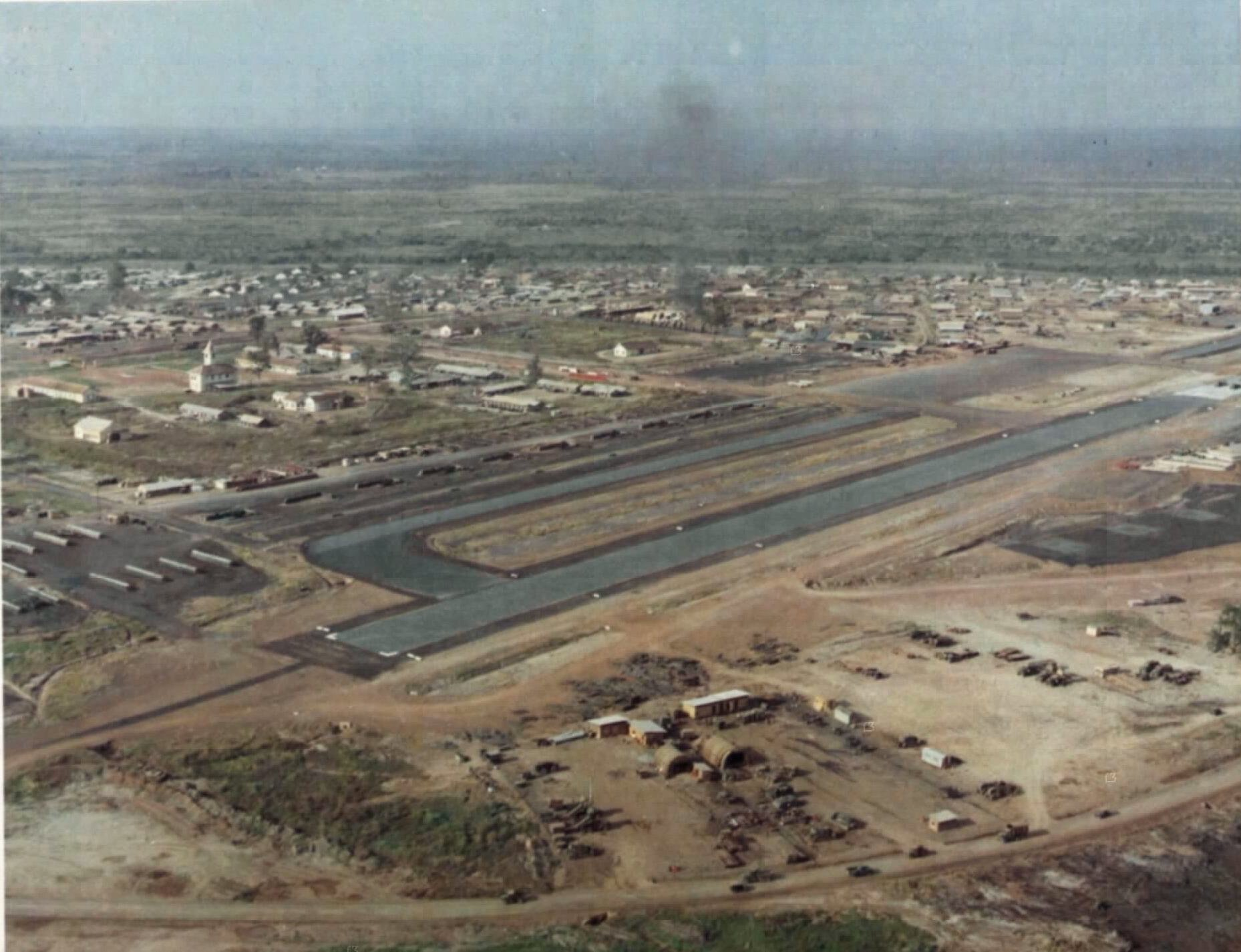 Aerial view of the 1st Ca Div (Airmobile) installation at Phuoc Vinh